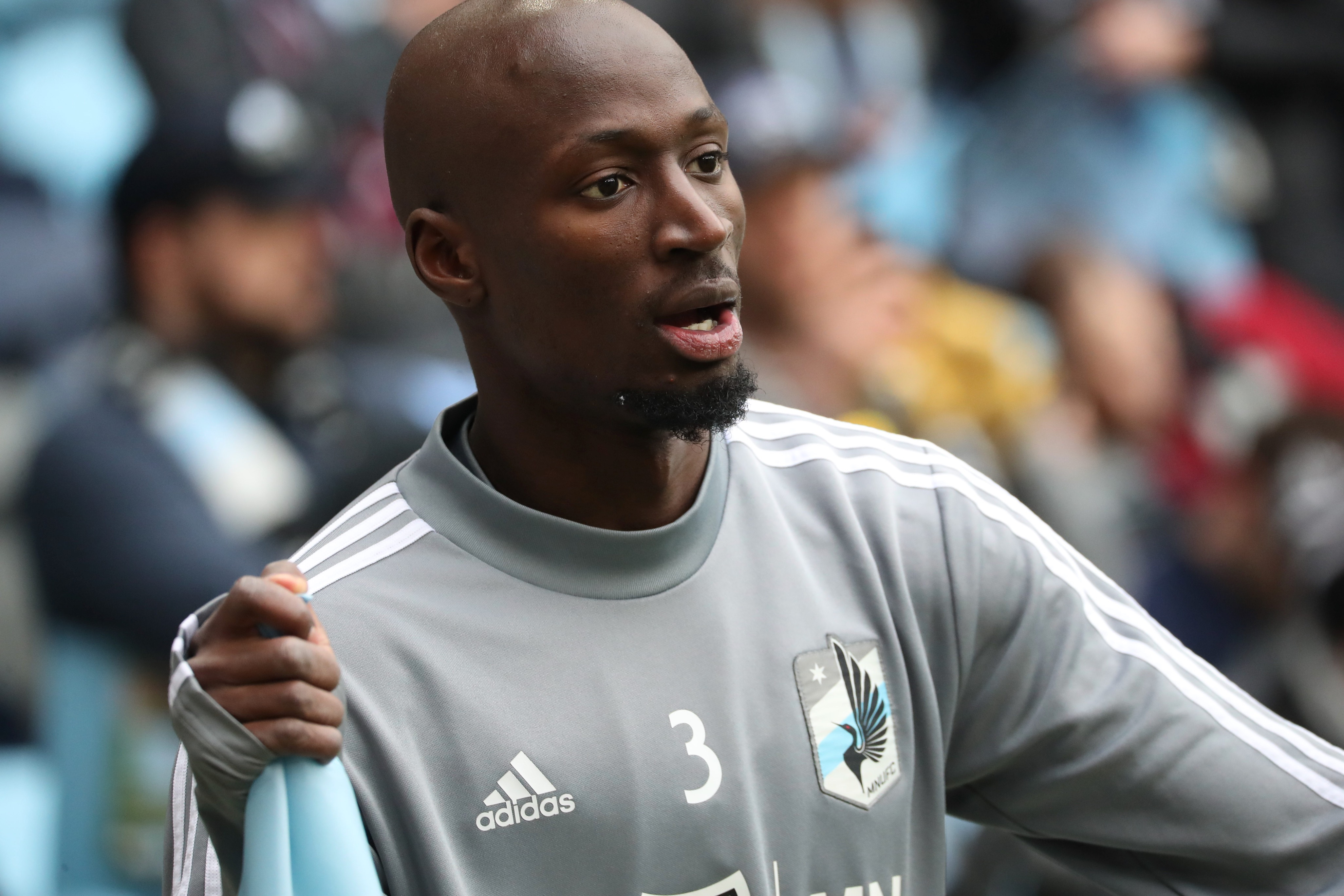 Opara Minnesota United - MNUFC v NYCFC NEW YORK CITY FOOTBALL CLUB - ALLIANZ FIELD - St. PAUL MINNESOTA